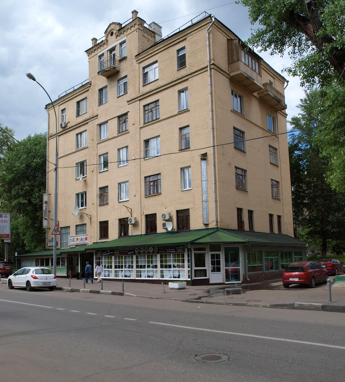 Mantulinskaya Street, Moscow.